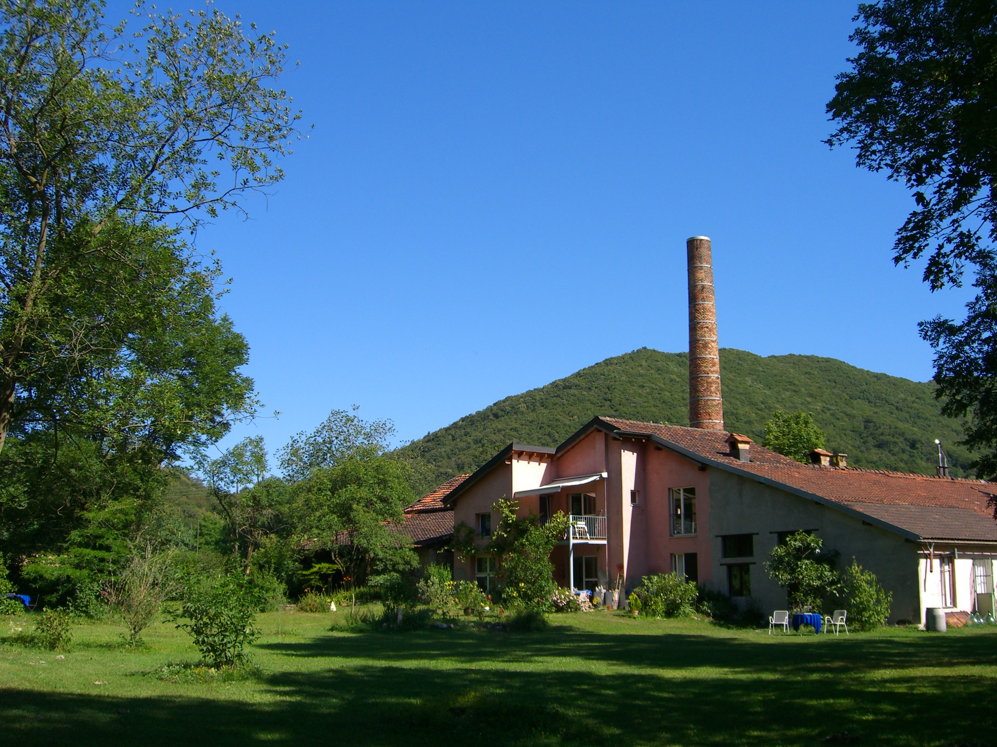 Camino Spinirola in Meride, Ticino, Switzerland